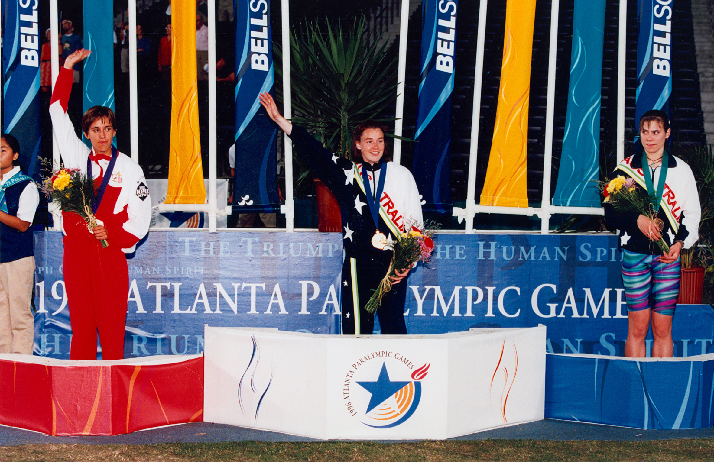 Australian T20 athletes Sharon Rackham (centre, gold medal) and Lisa Llorens (right, bronze medal) and Canadian Tracey Melesko (left, silver medal) on the medal dais after the 200m at the 1996 Atlanta Paralympic Games